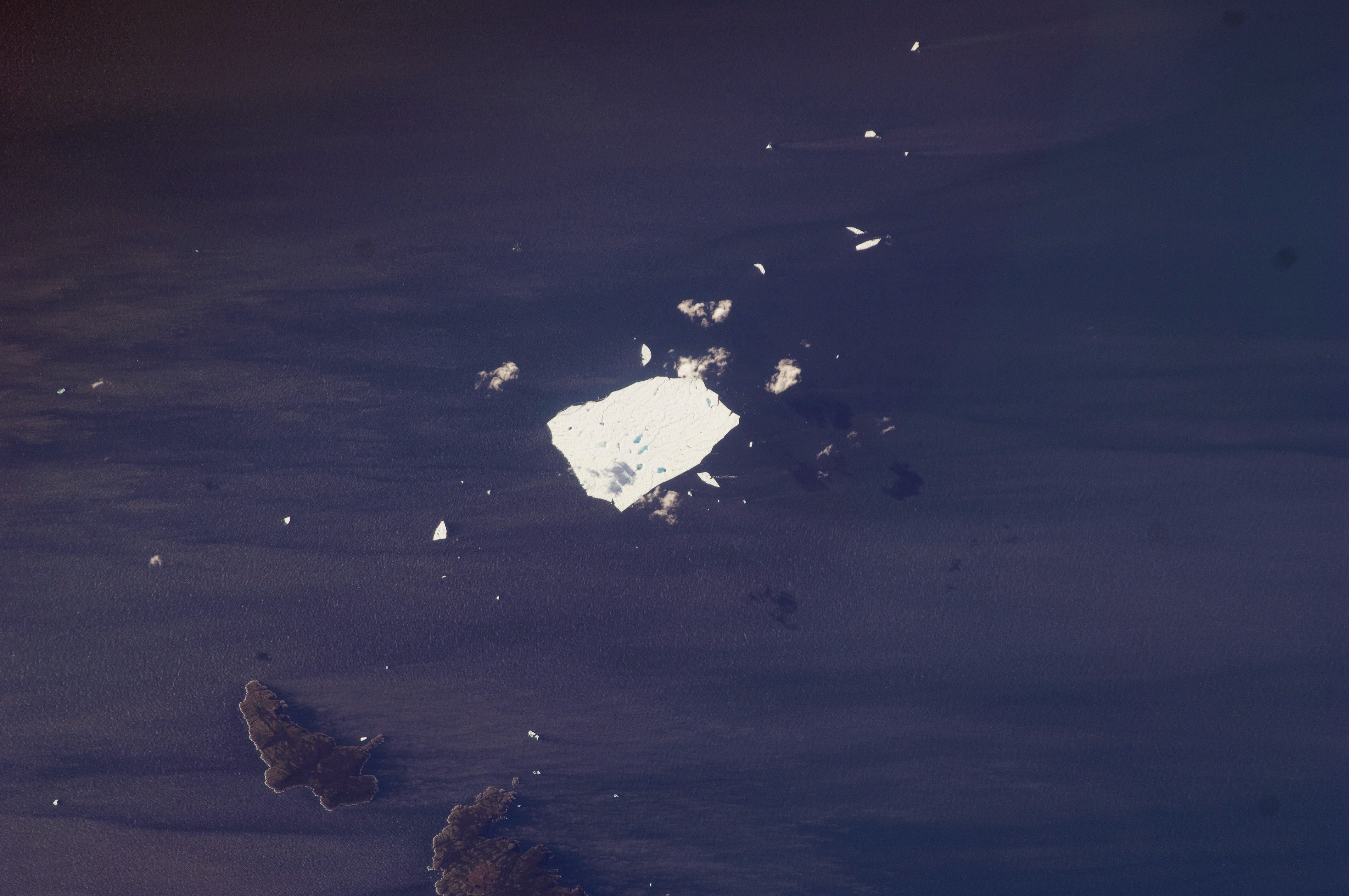 Astronauts on the International Space Station used a digital camera to capture this view of Petermann Ice Island A, fragment 2, off of the north-east coast of Newfoundland. Spanning roughly 4 kilometres by 3.5 kilometres, the ice island is covered with melt ponds and streams, much as the surface of Greenland looks in mid-summer. As ice melts on top of the Greenland ice sheet, the melt water forms streams and pools in the depressions on the ice surface. Drawn down-slope by gravity—much like streams on a mountainside—water also runs toward the edges of the ice. In some cases, it cracks through it and rushes to the bottom. Such processes appear to be at work on the ice island as well.